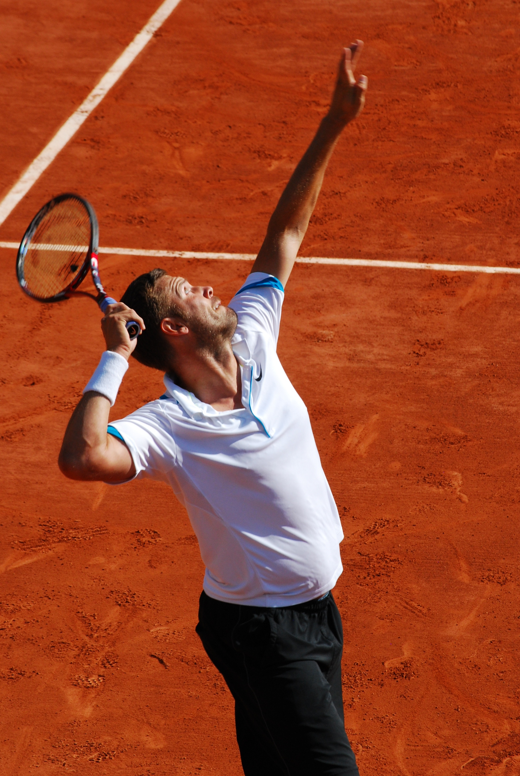 2nd round doubles match with Rainer Schüttler, against Scott Lipsky & Rajeev Ram. Roland Garros 2011.